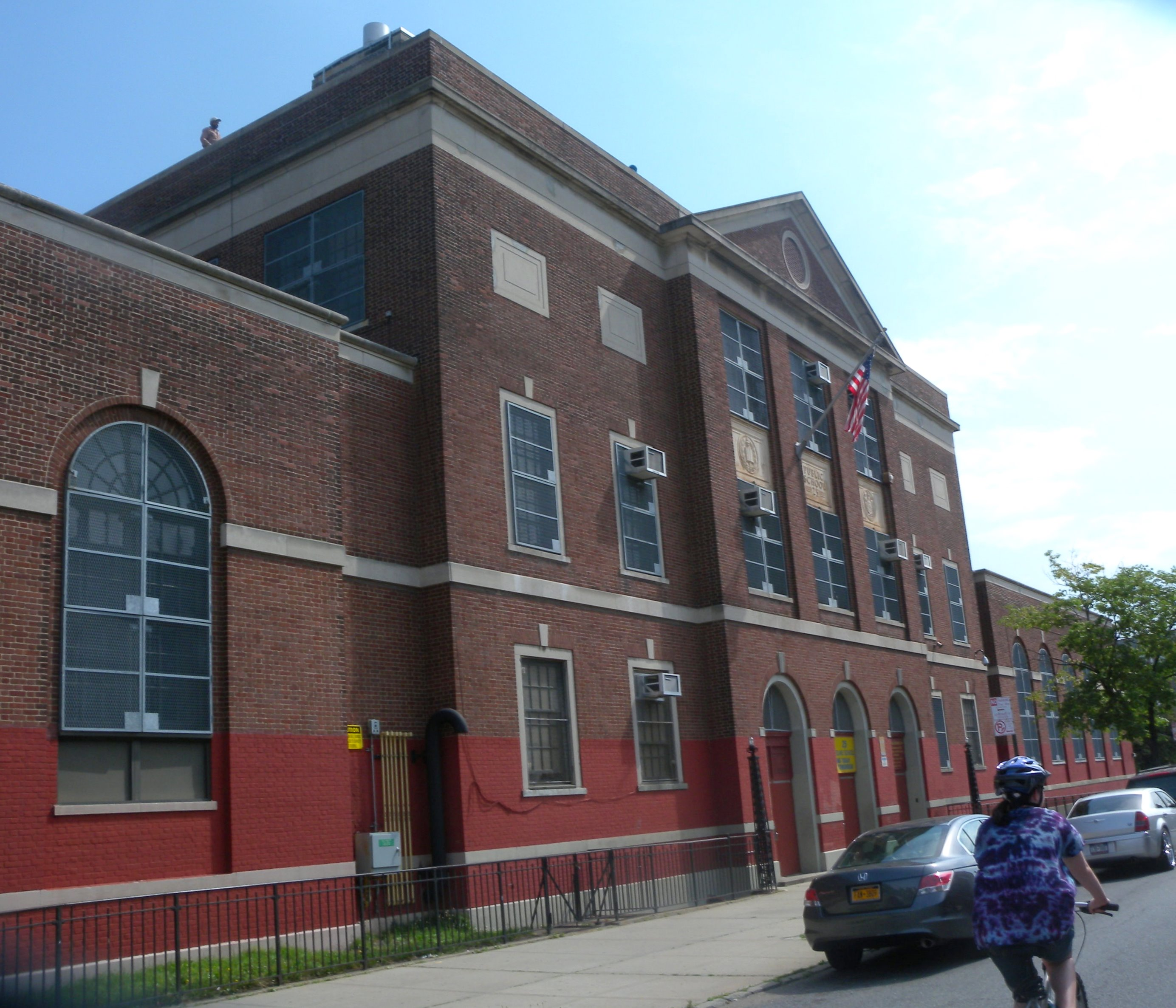 Looking northeast across Lafayette Avenue at PS 25 the Eubie Blake School on a sunny morning.